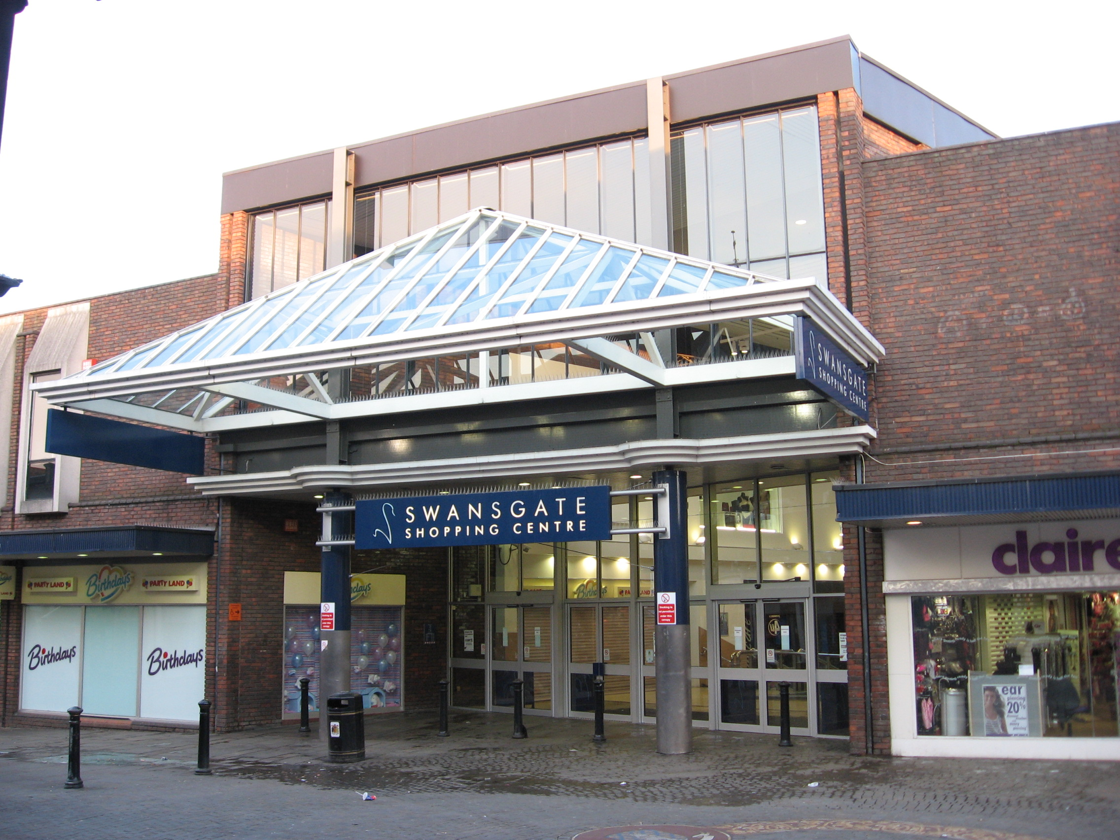 Swansgate, Wellingborough Northamptonshire